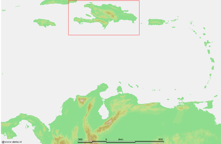 Caribbean - Hispaniola.PNG